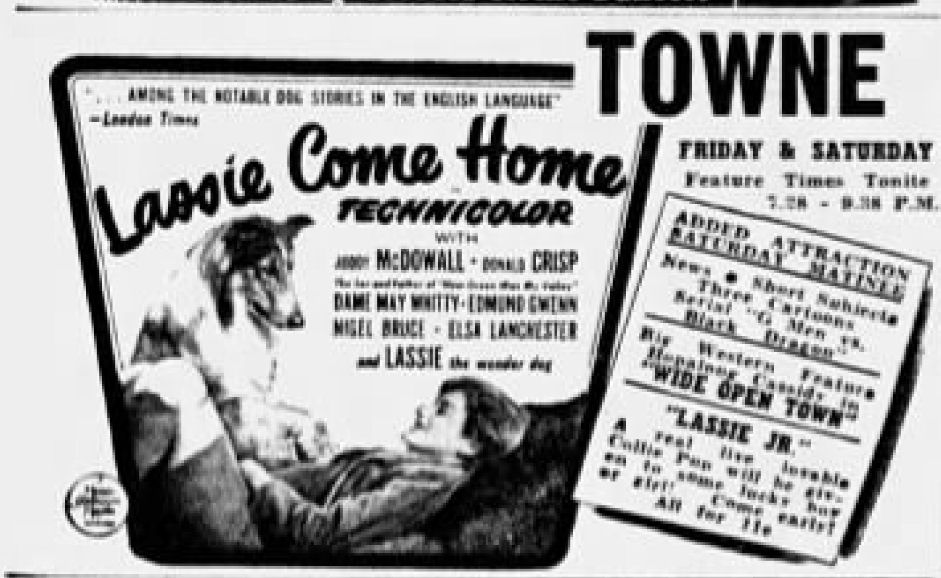 Towne Theater advertisement for the American film Lassie Come Home (1943) - 14 Jan. 1944 Morning Call, Allentown PA